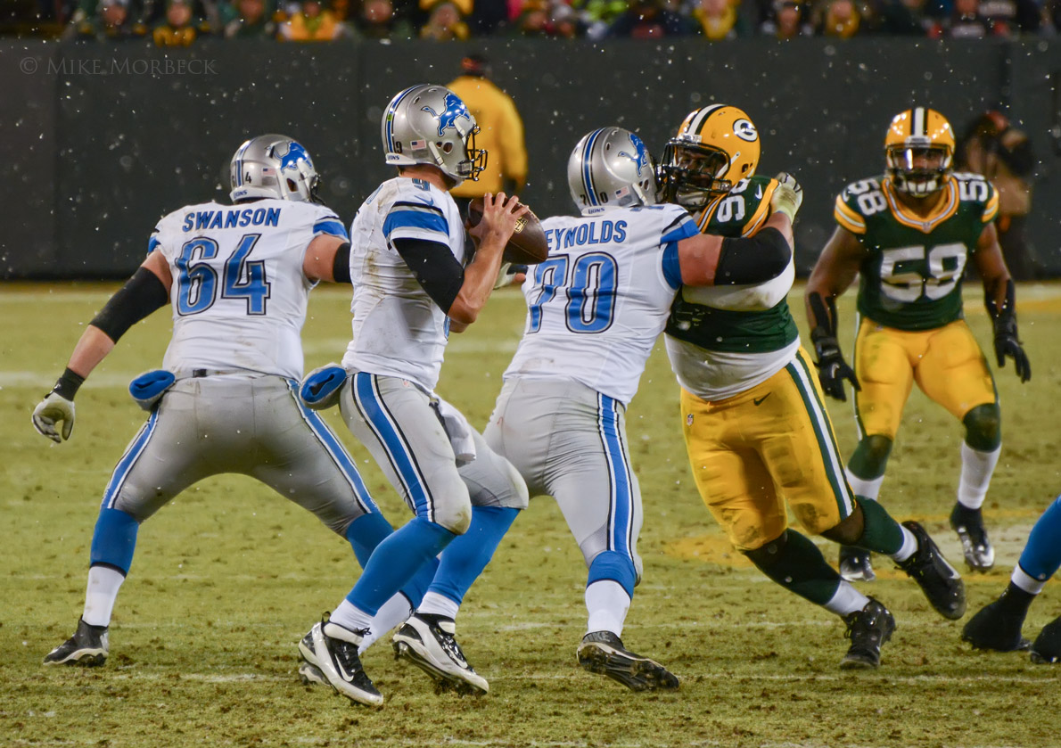 Matthew Stafford about to pass during a 2014 game against the Green Bay Packers